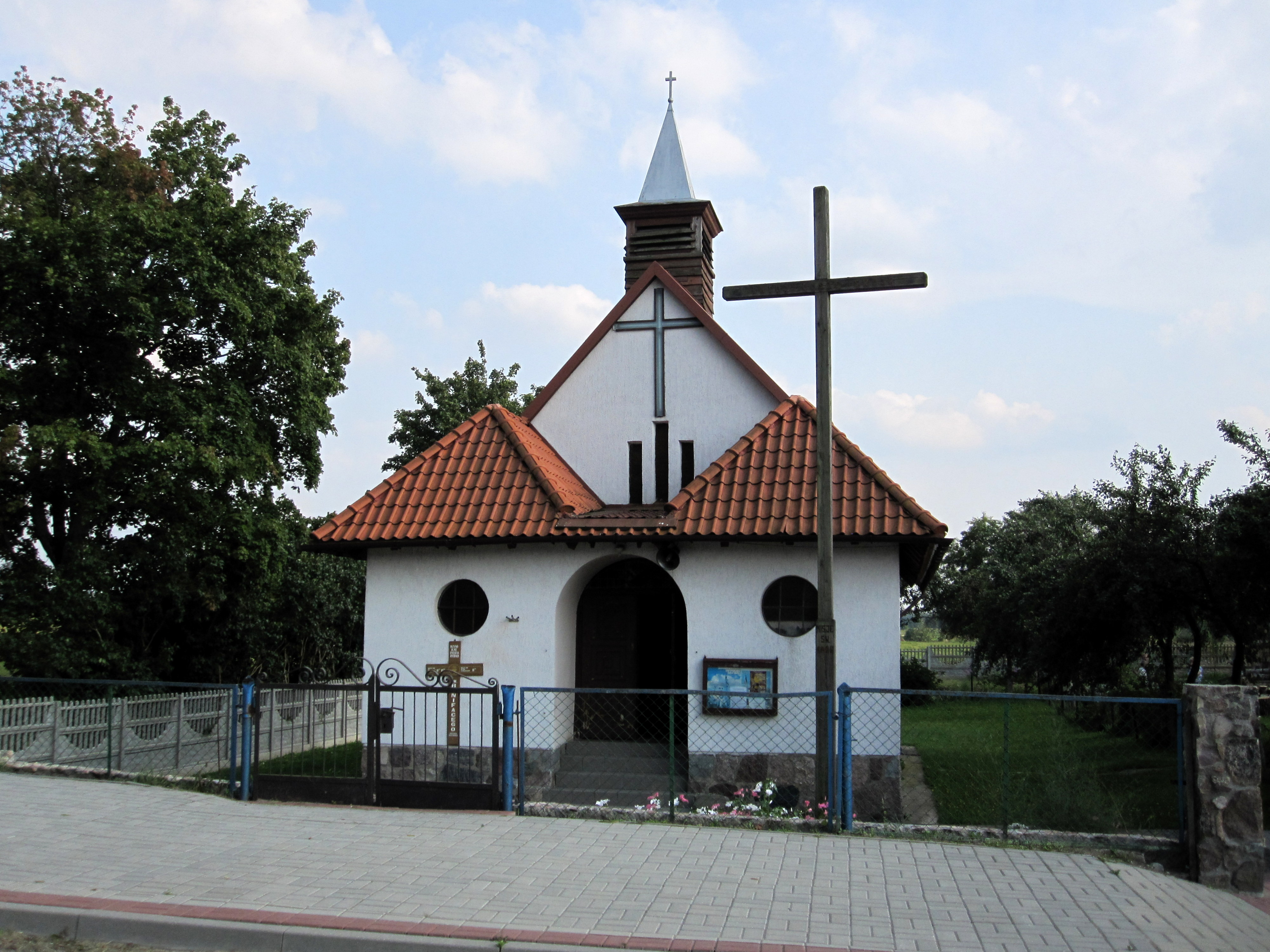 Saint Boniface church in Rybno